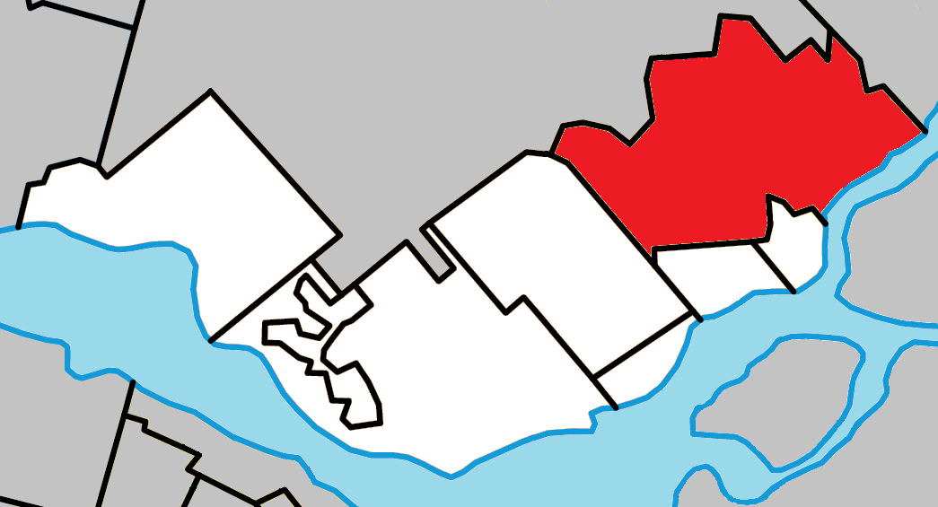 Location of Saint-Eustache, Quebec within Deux-Montagnes Regional County Municipality.